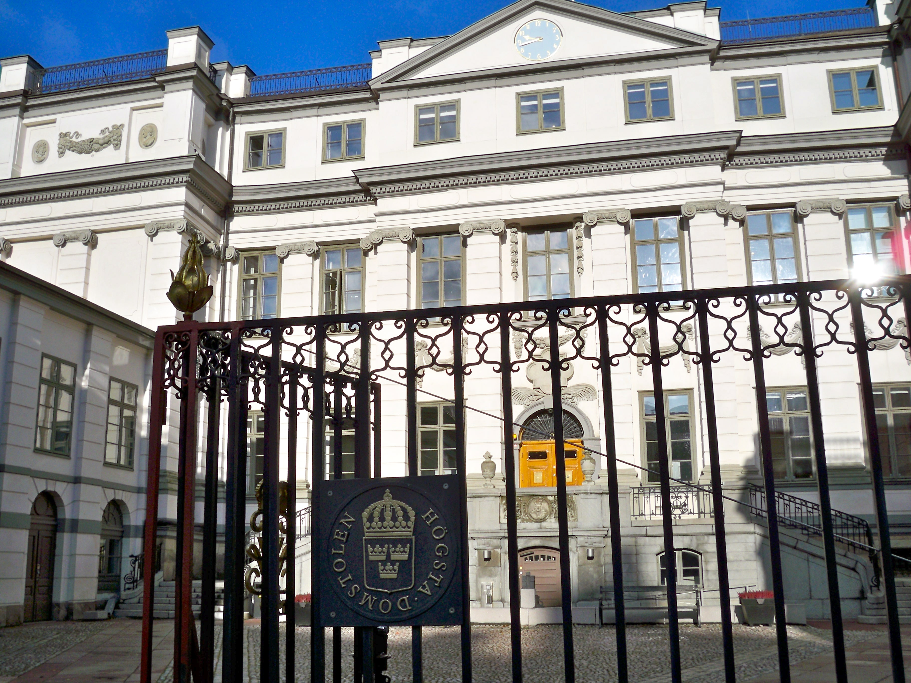 Supreme Court in Stockholm, Sweden.